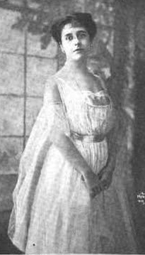 Odette Le Fontenay, from a 1917 publication. A young white woman standing in a light-colored gown.